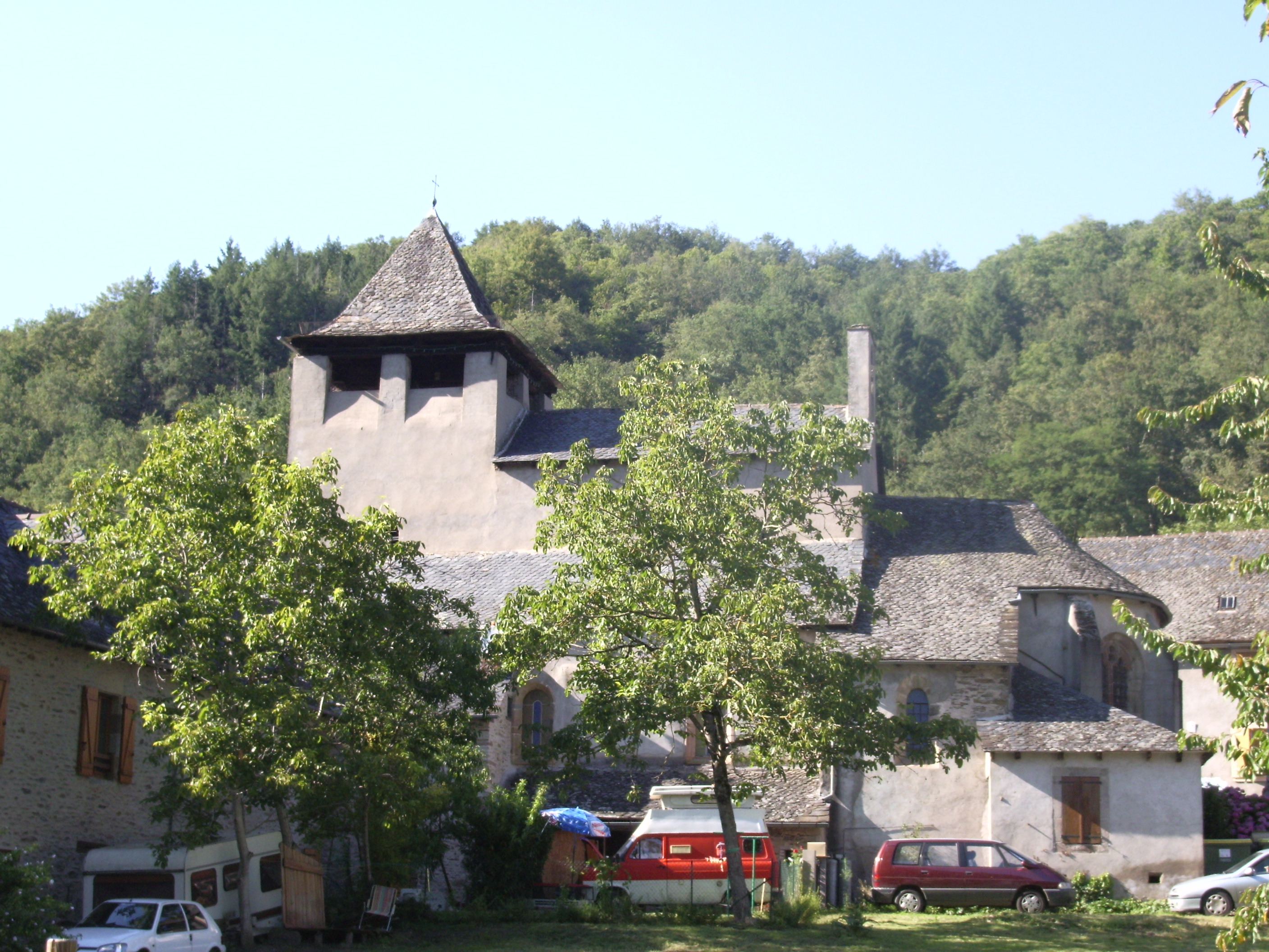 Church of Saint-Parthem (village in France)